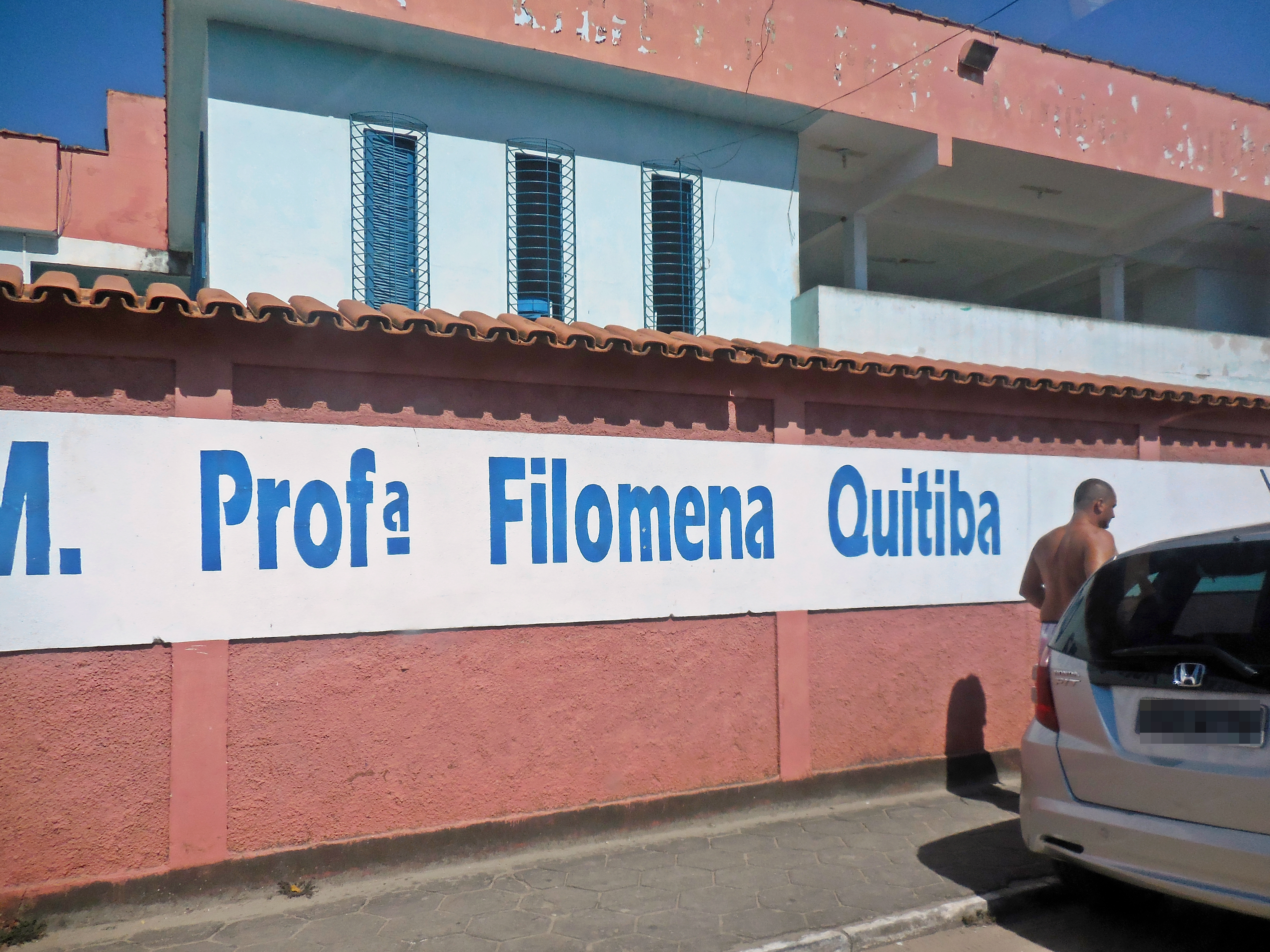 Partial view of the Professora Filomena Quitiba state school, in Piúma, Espírito Santo, Brazil.